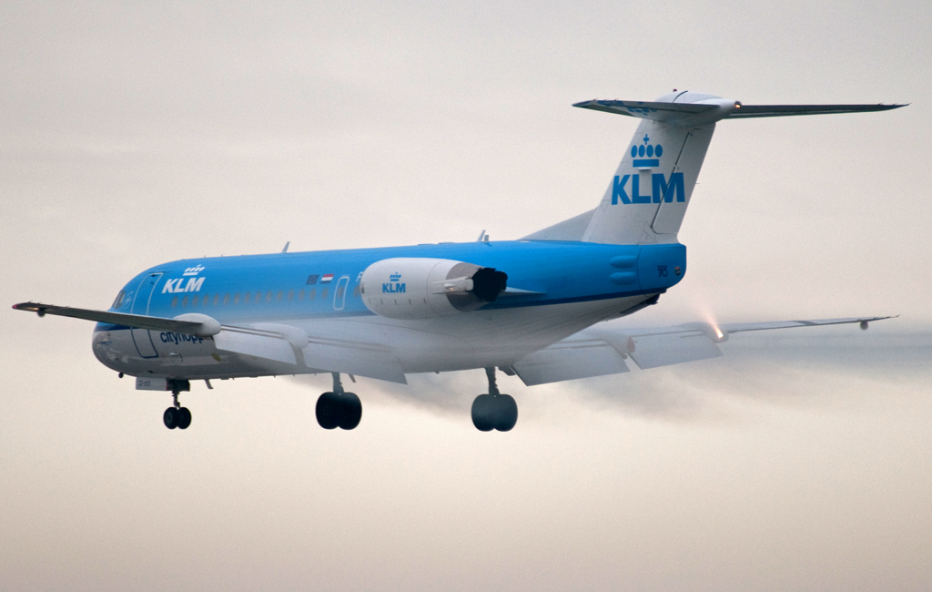 A lot of moist in the air while landing on 18C Fokker 70 Amsterdam schiphol [AMS / EHAM] 10-04-2010